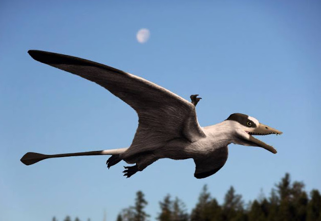 Life reconstruction of the campylognathoidid Bergamodactylus